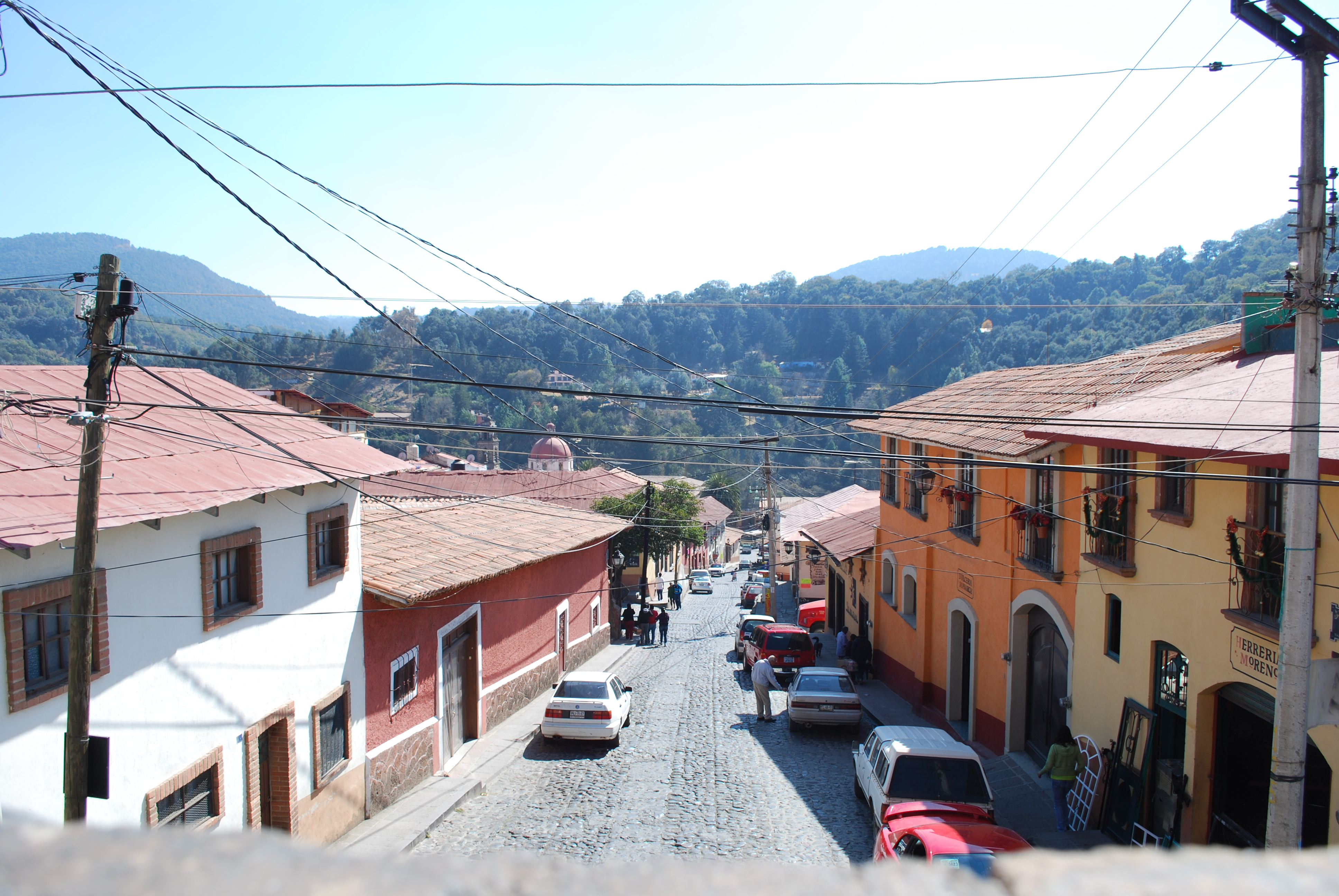 Looking southeast from the parish church in Tlalpujahua, Michoacan.